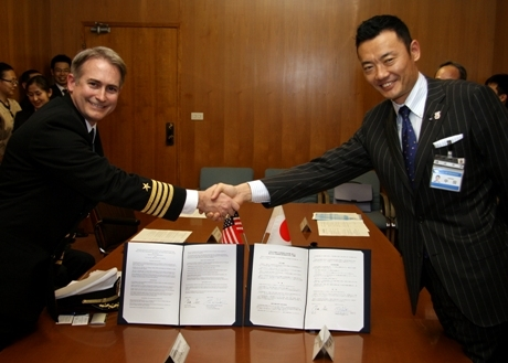 Naval Air Facility Atsugi, Japan’s Commanding Officer Capt. Eric Gardner (left) shakes hands with Yokohama Mayor Hiroshi Nakada